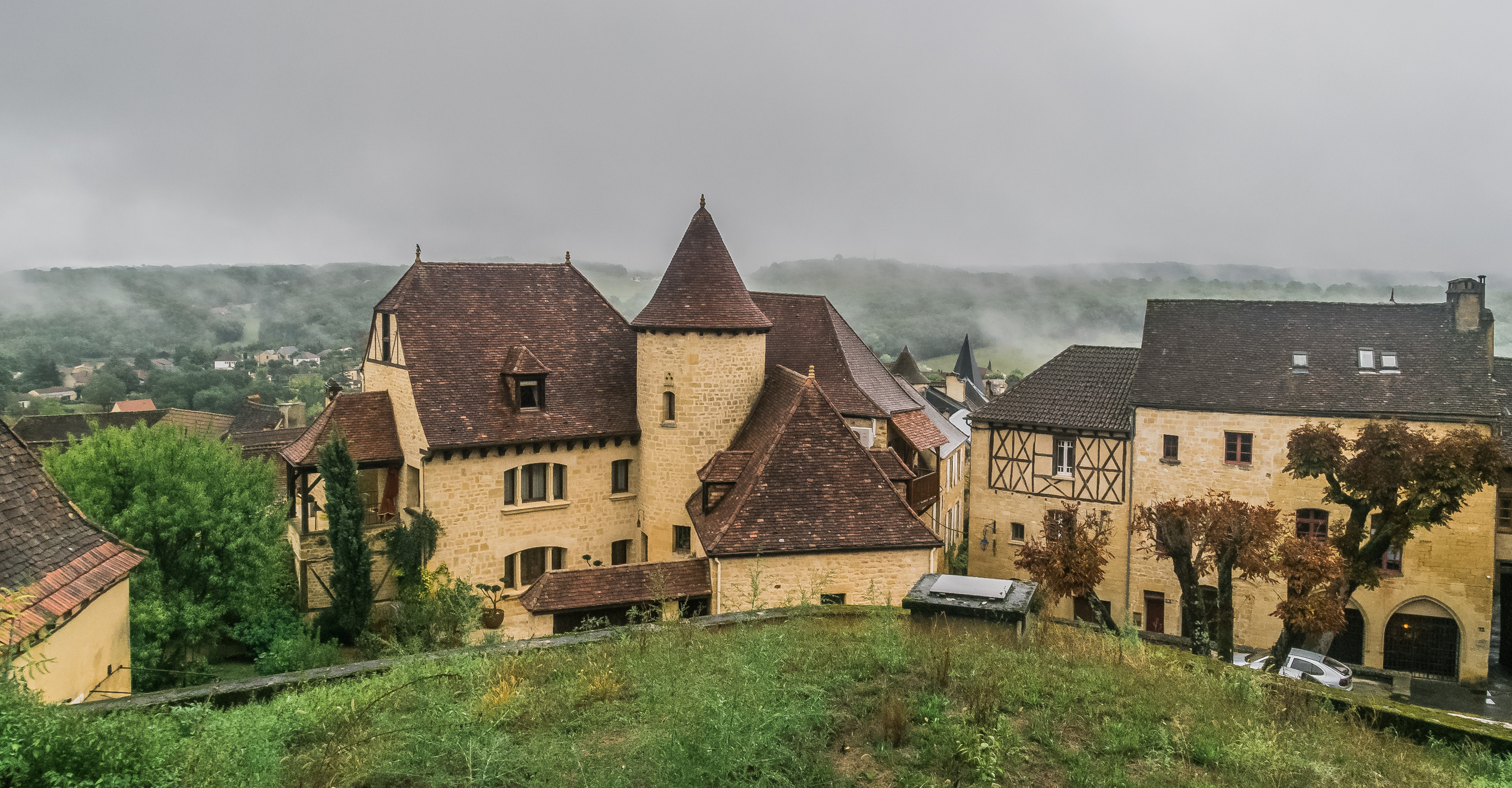 Buildings in Gourdon, Lot, France